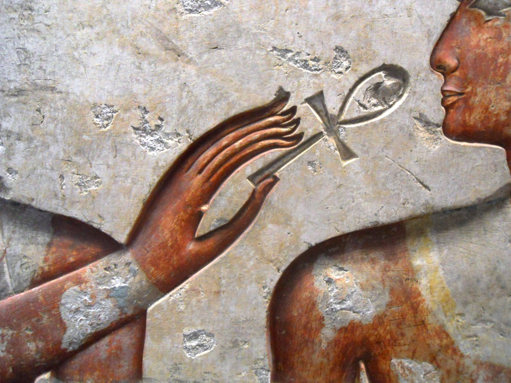 Ramses II. among the gods, detail hand (Louvre)